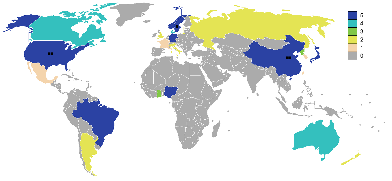 FIFA Women's World Cup – Number of appearances and host